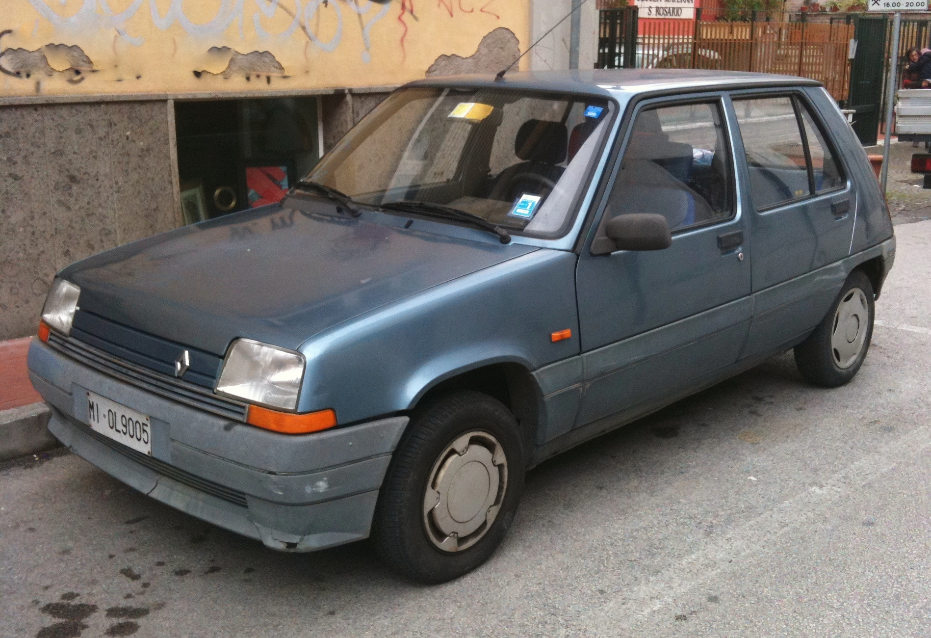 Renault 5 facelift hatch front